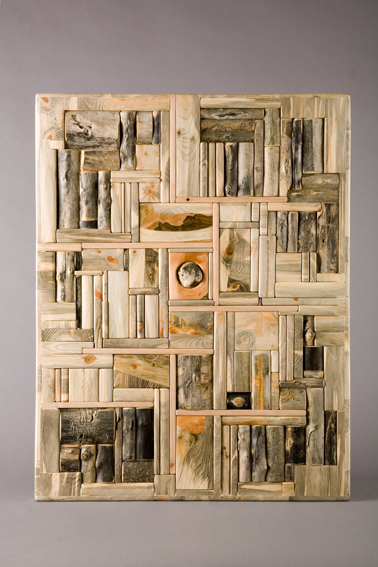 Wooden Bookshelves